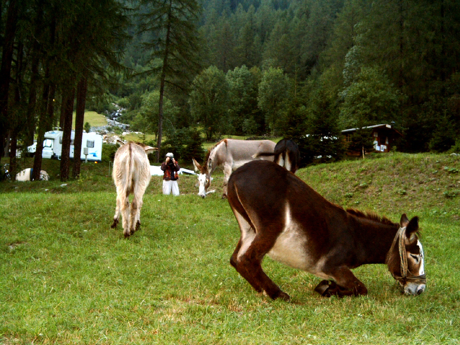 Donkey: created my me at 25-07-2004, 20:42